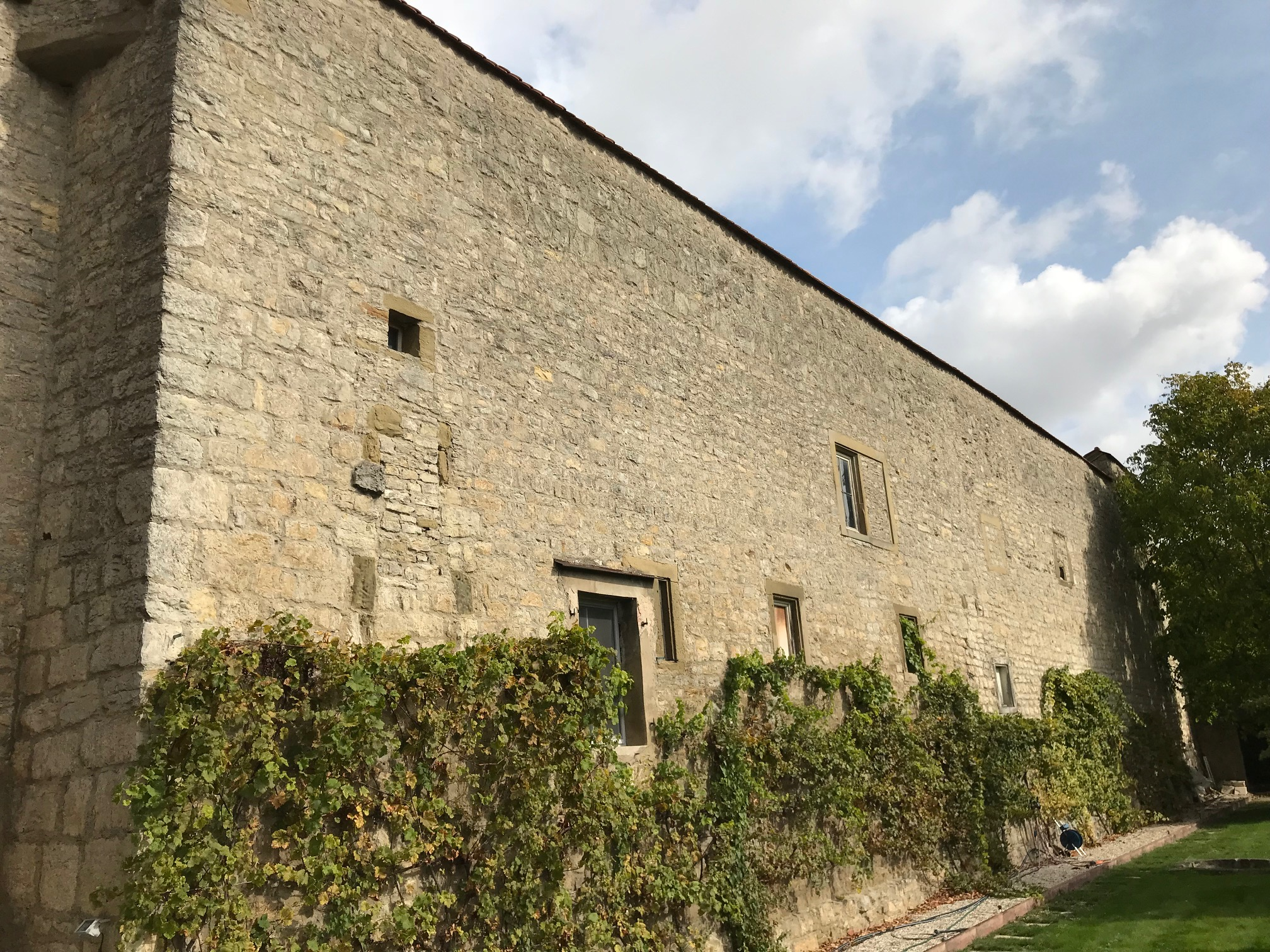 Nebengebäude von Burg Arnstein (Main-Spessart)